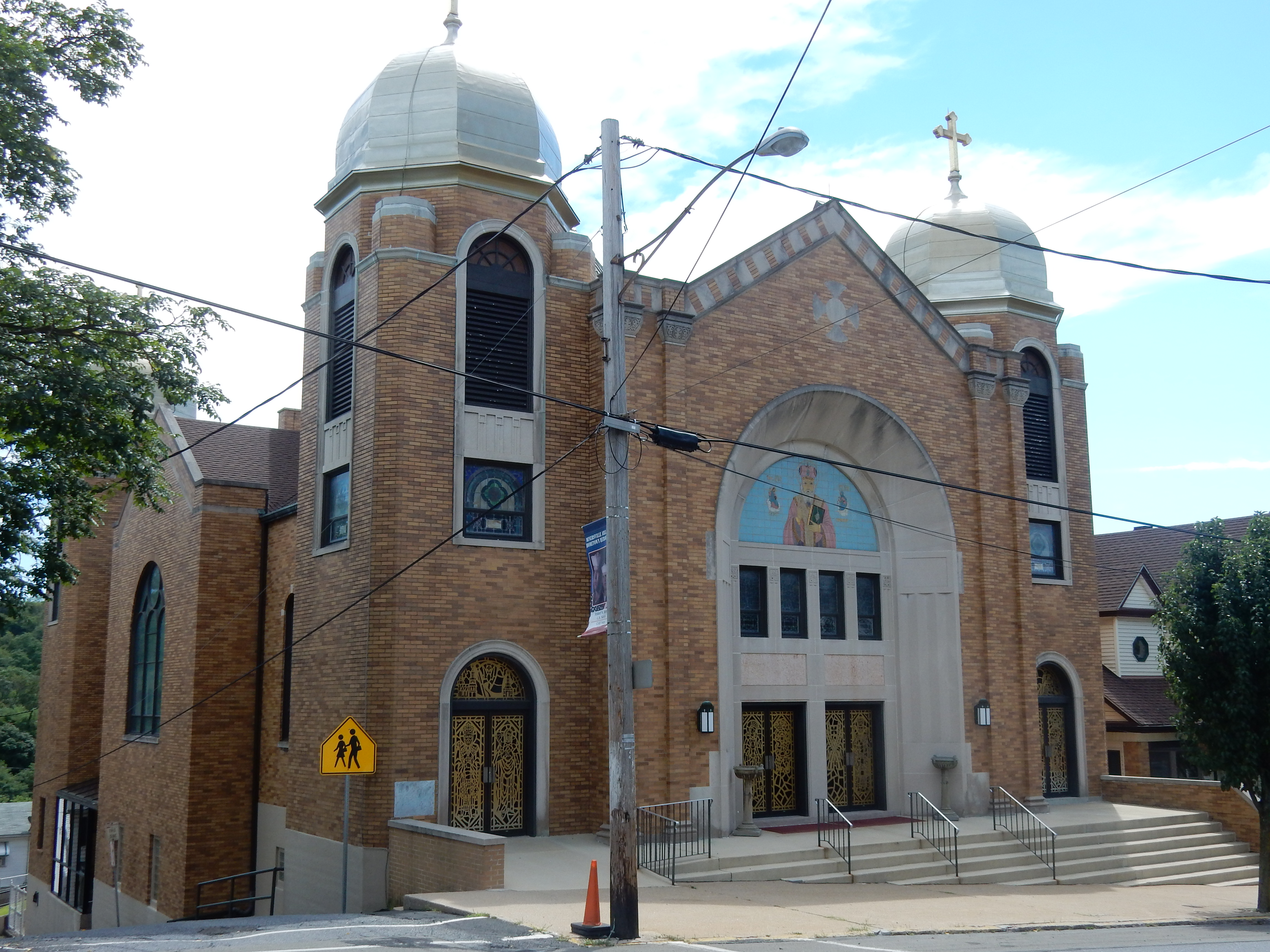 St. Nicholas Ukrainian Catholic Church, 415 N. Front St., Minersville, Schuylkill County, Pennsylvania.